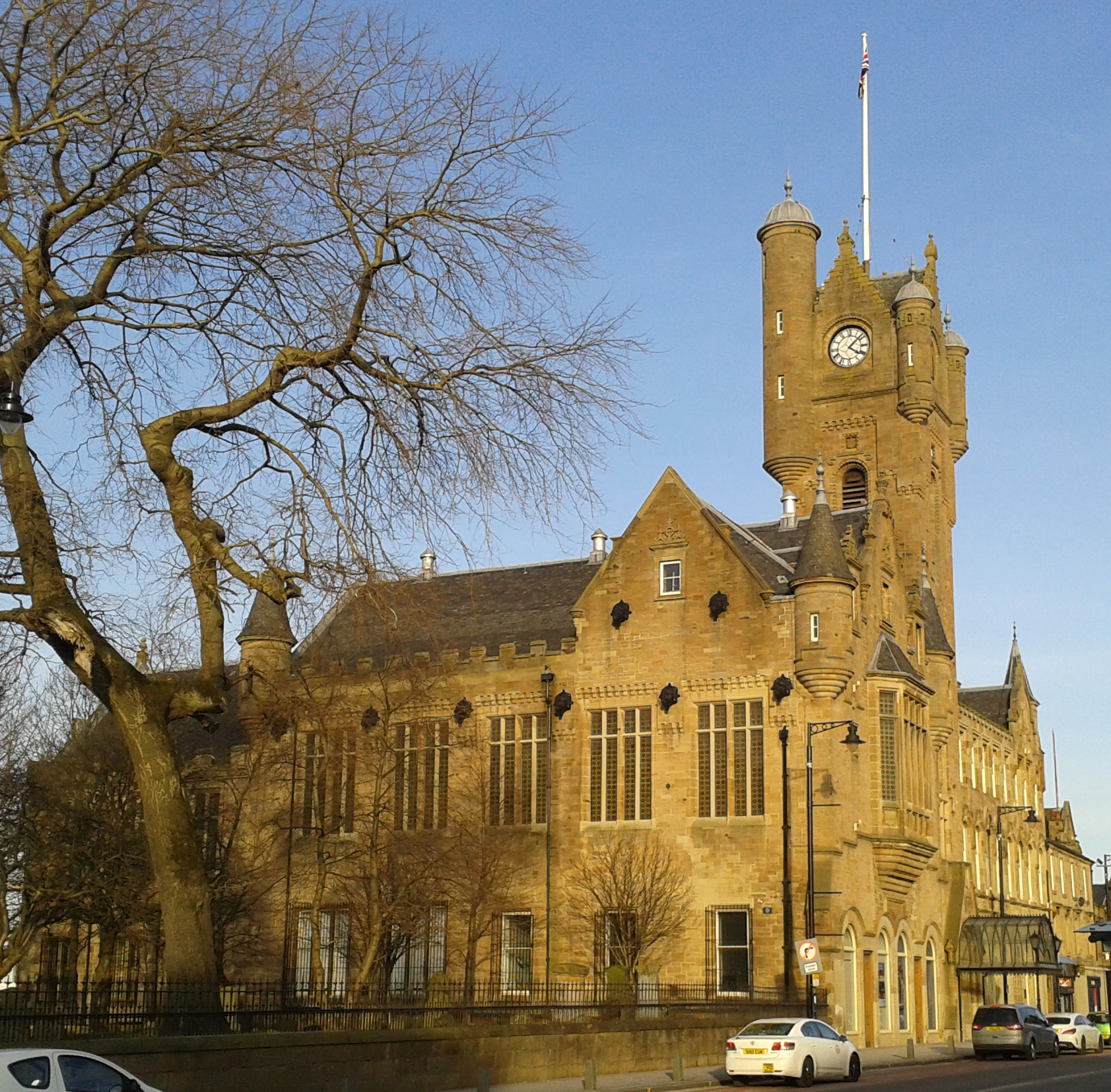 Rutherglen Town Hall, Rutherglen. More images